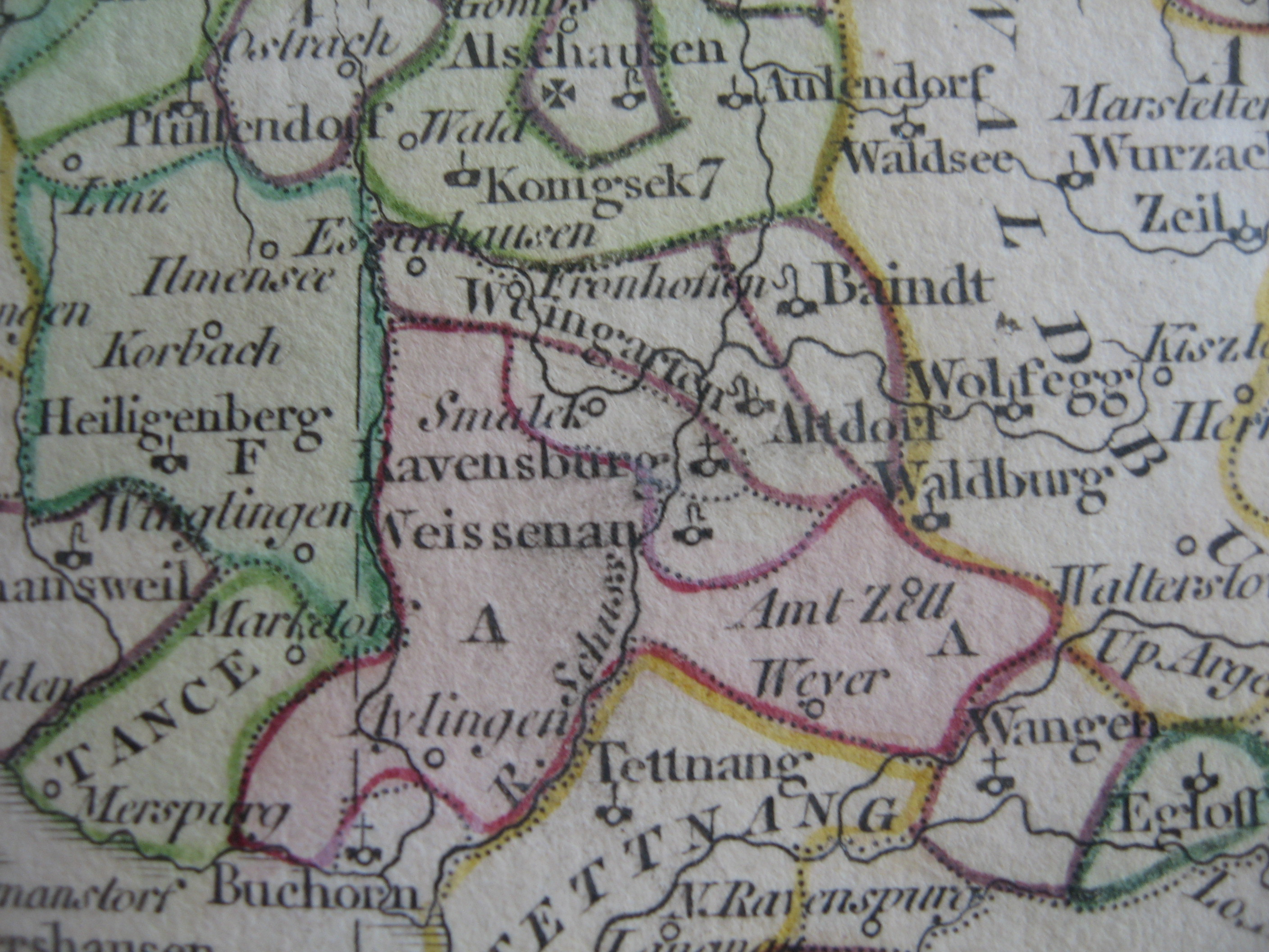 The Imperial Abbeys of Weissenau, Baindt and Weingarten were in the immediate vicinity of the Imperial City of Ravensburg. Cropped from a map published by R. Wilkinson, 1802.